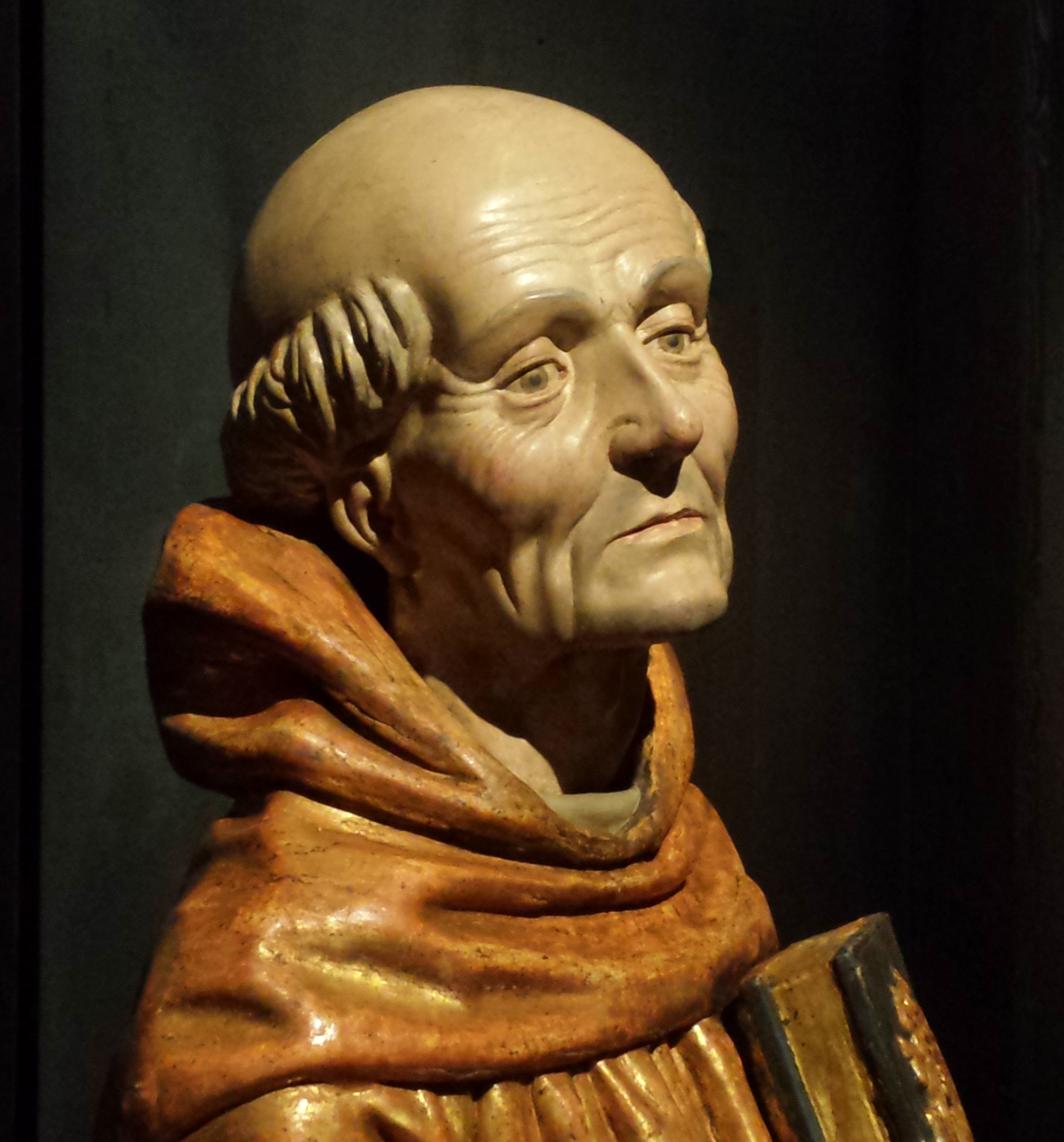 Pietro Bussolo "San Bernardino" 1490/95, Wood carved, painted and gilded, Bergamo, Chiesa di San Bernardino in Pignolo